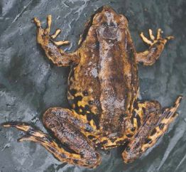 Nanorana conaensis from Haa District, Bhutan. Photo by Karma Wangdi, published in Wangyal, J. T. 2013. New records of reptiles and amphibians from Bhutan. Journal of Threatened Taxa 5:4774–4783.